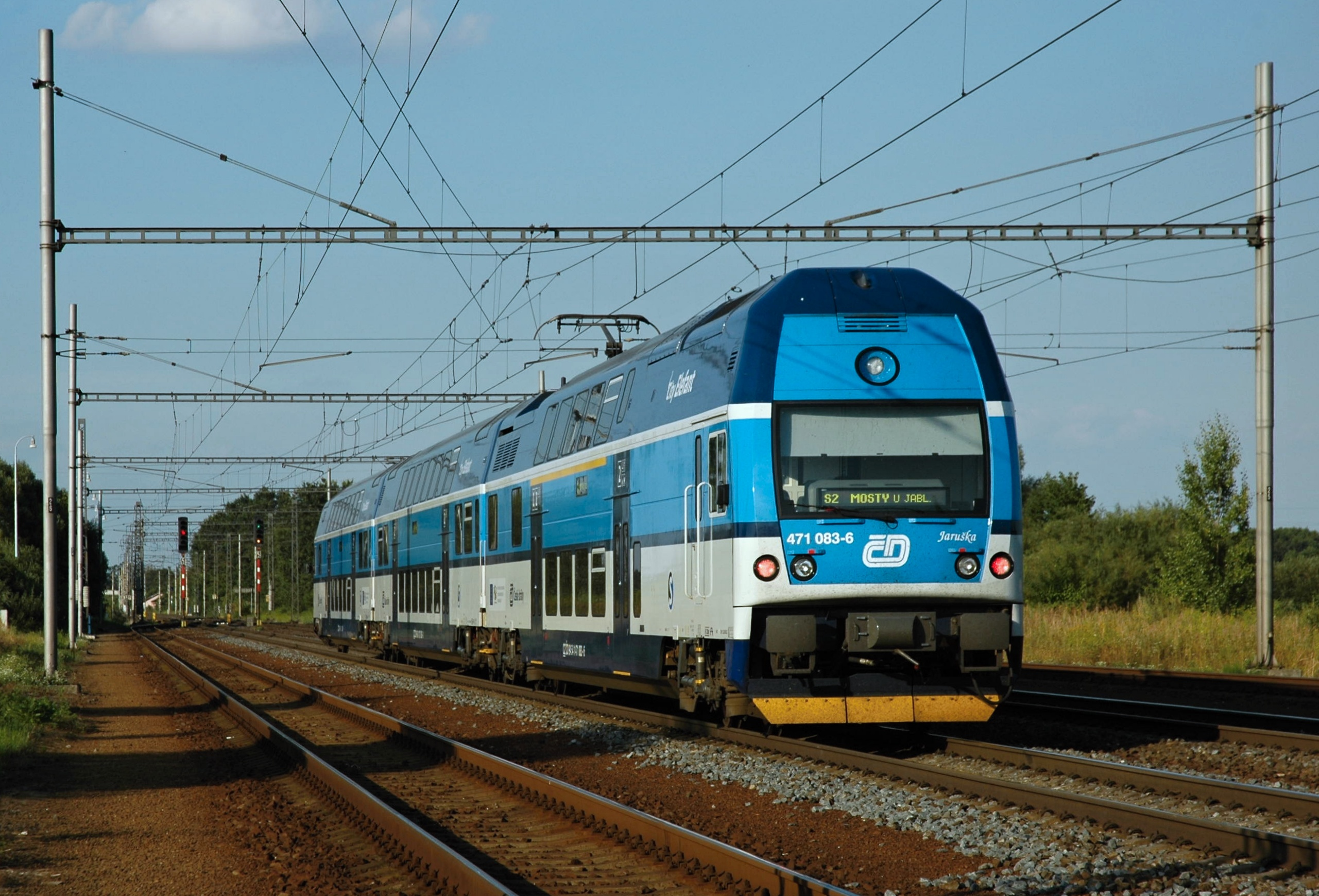 471.083 of České dráhy railway operator, train from Studénka to Mosty u Jablunkova; Jistebník train station, the Czech Republic